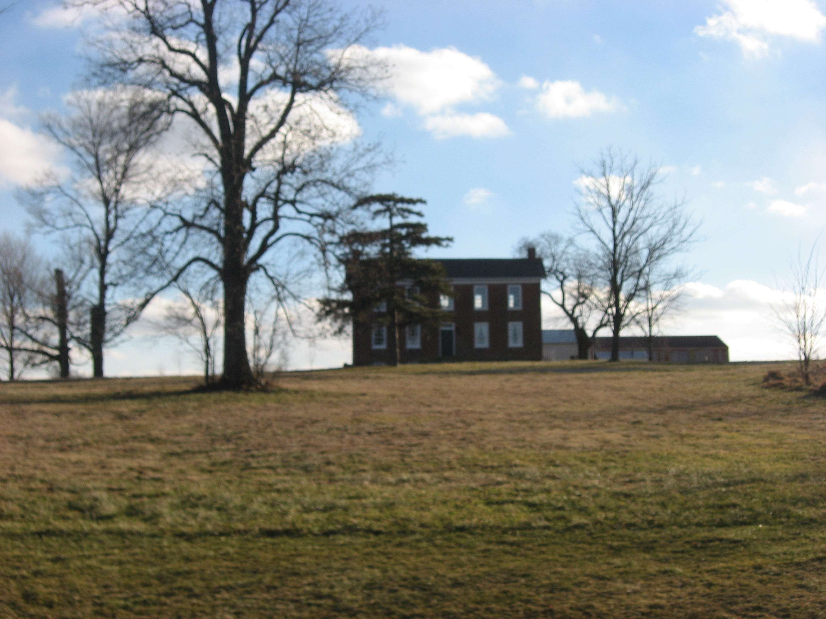 Roadside view of the Abijah O'Neall II House, located at 4320 Fall Creek Road along State Road 32) west of Crawfordsville in Sugar Creek Township, Montgomery County, Indiana, United States. Built in 1848, it is listed on the National Register of Historic Places.